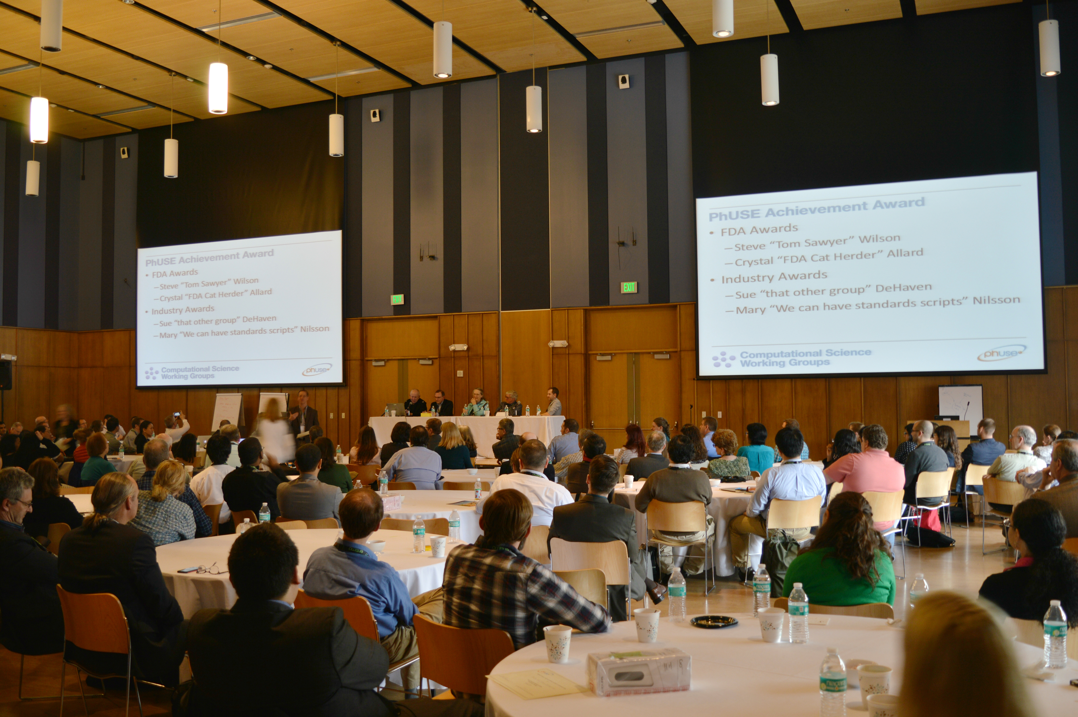 On March 15 – 17, 300 people from FDA (51), CDISC, and industry gathered in Silver Spring, Maryland for the 5th Annual PhUSE Computational Science Symposium (CSS). This event and ongoing collaboration are unique opportunities that bring together key stakeholders to solve current data challenges, explore emerging technologies, and improve the medical product lifecycle. For more information, contact the FDA Office of Computational Science (OCS) Service Desk: Monday – Friday, 8:30 am to 5:00 pm Phone: 240-402-0401 The photos in this album were produced in collaboration by Phuse and FDA/OCS staff. They are free of all copyright restrictions and available for use and redistribution without permission. Credit to the U.S. Food and Drug Administration is appreciated but not required. For more privacy and use information go to